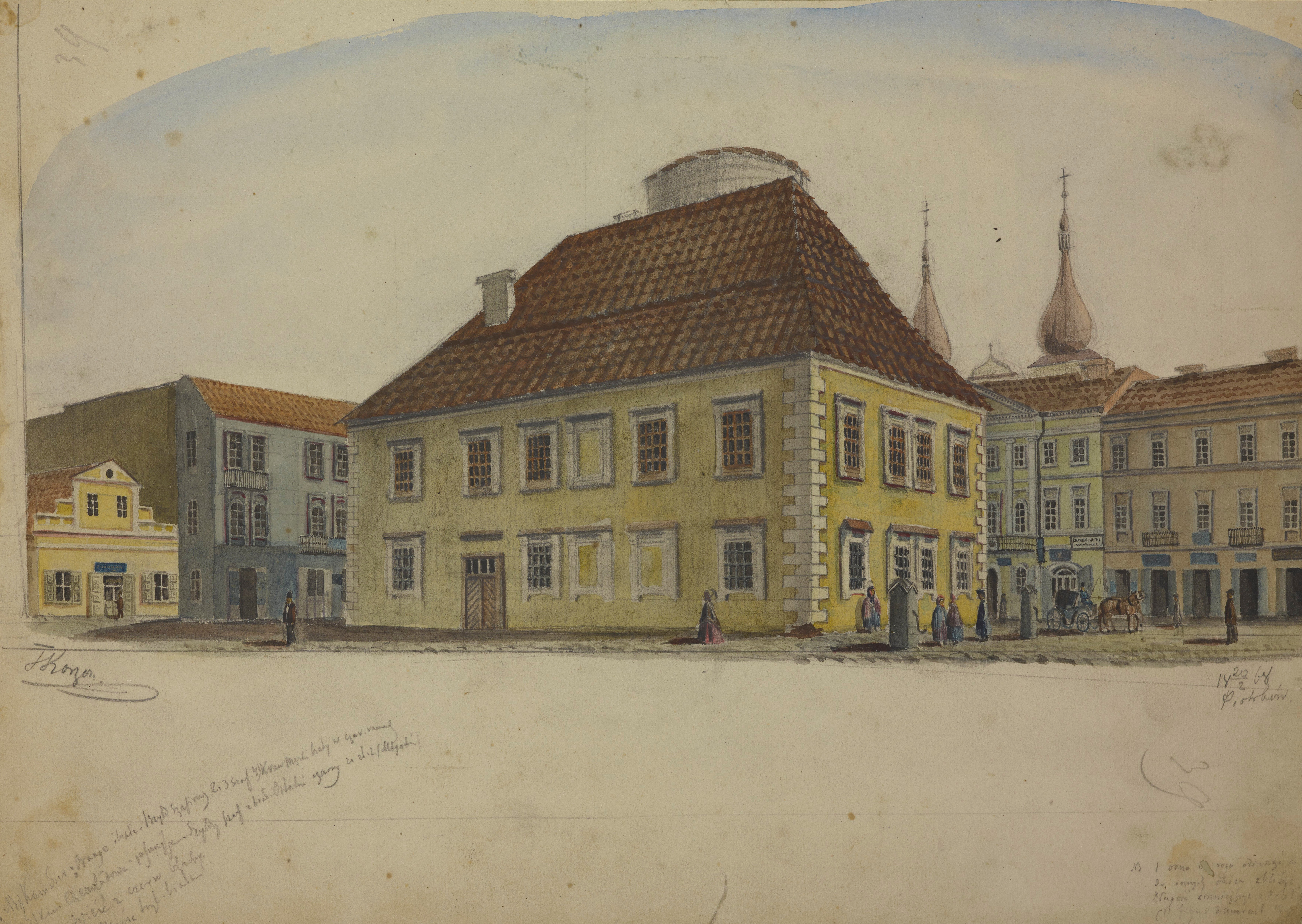 Town hall in Piotrków Trybunalski in Poland by Tadeusz Korzon.